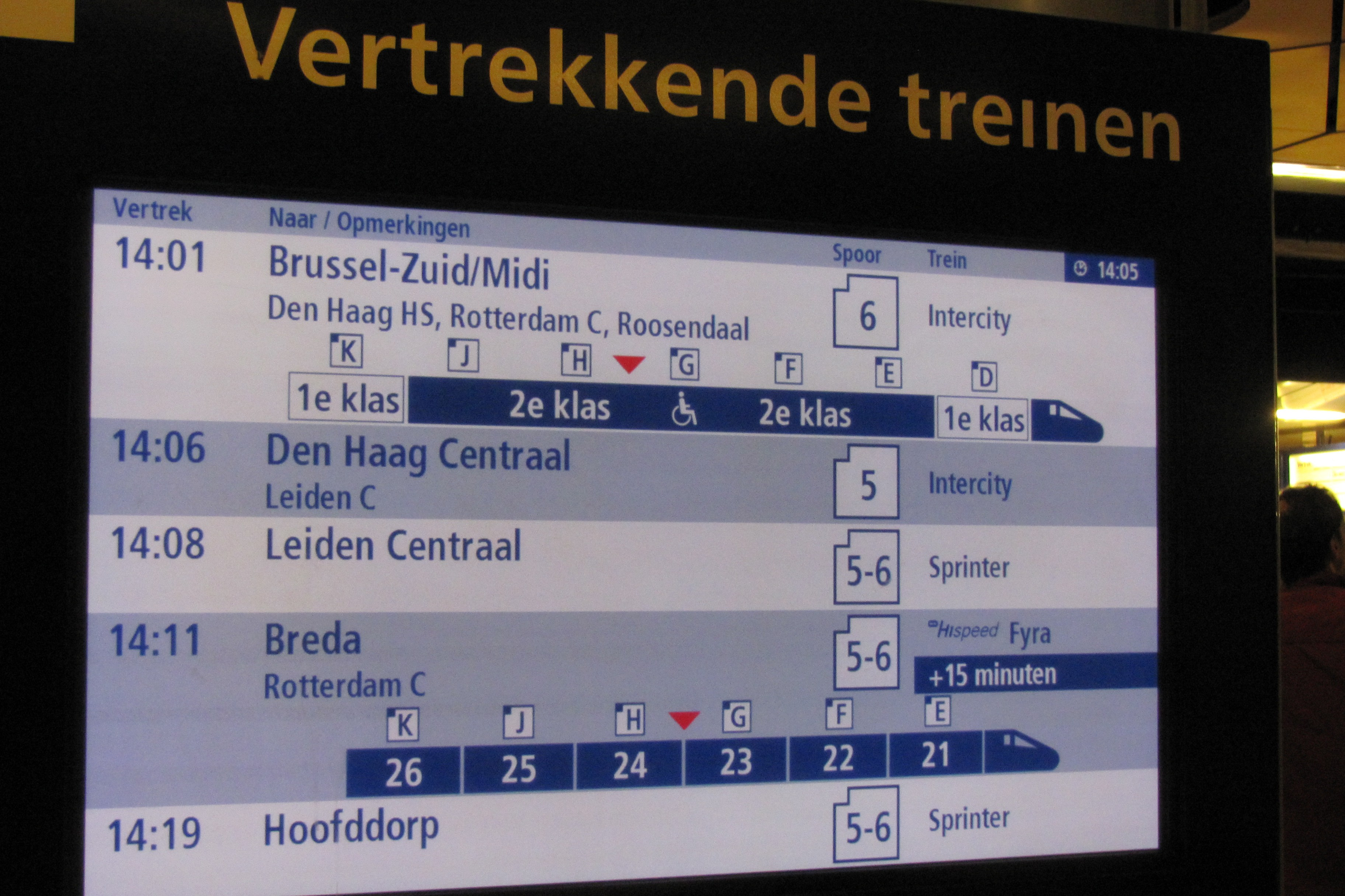 Train composition info board at Amsterdam Airport Schiphol.